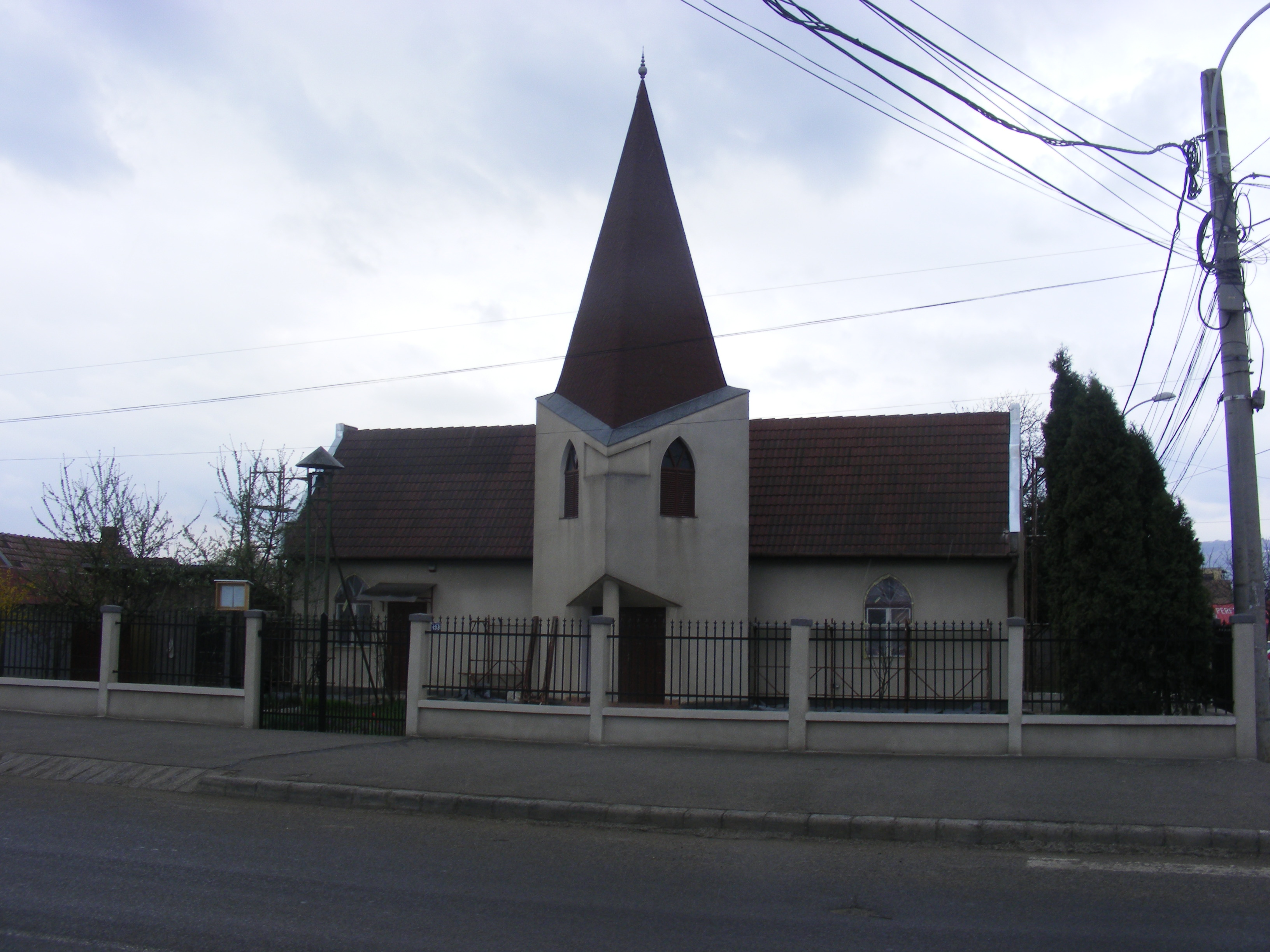 Reformed church in Bulgaria district, Cluj-Napoca